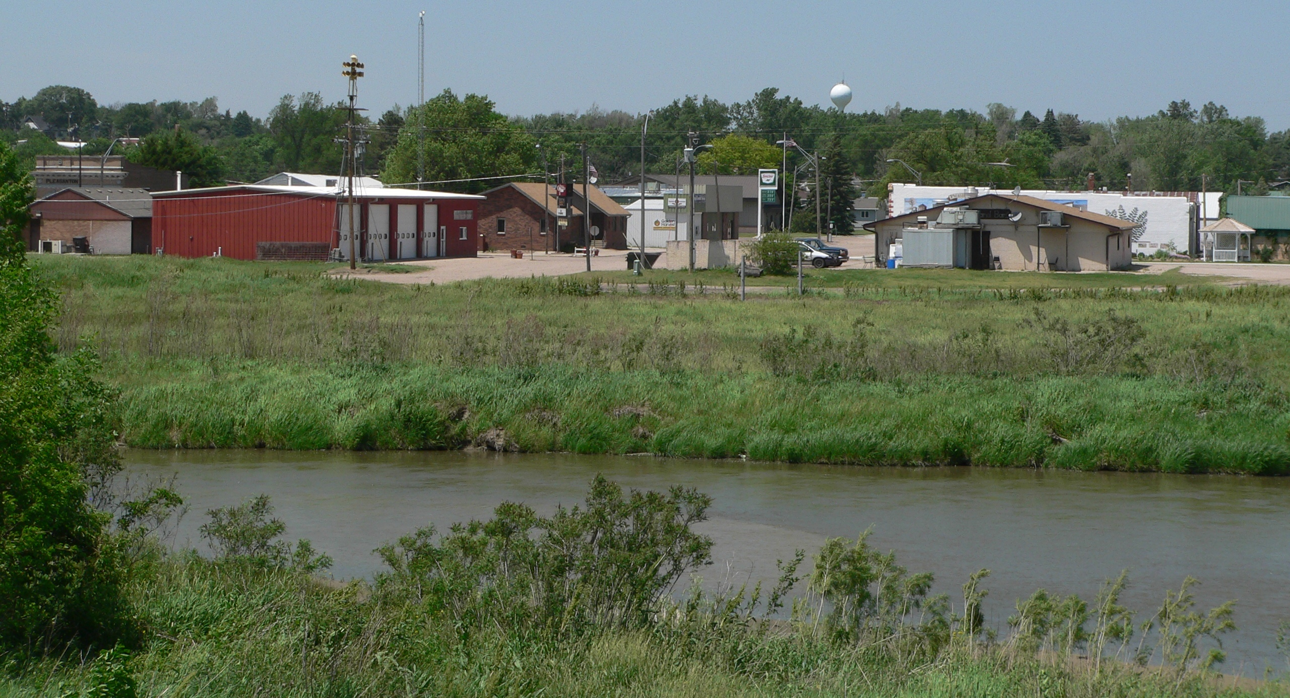 Pleasanton, Nebraska; looking northwest across South Loup River from Nebraska Highway 10.